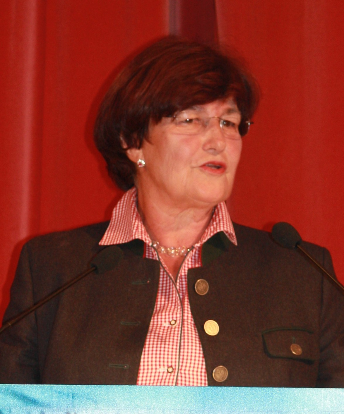 Christa Stewens, 2011